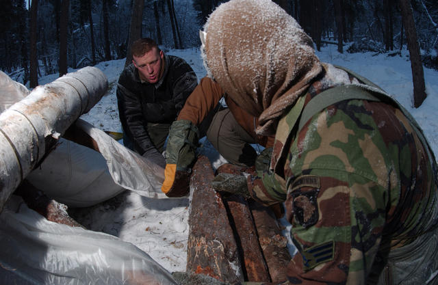 U.S. Air Force Senior Airman Jason Naquin, right, and Senior Airman Ryan Perry, left, both from the 19th Air Support Operations Squadron, Fort Campbell, Kentucky, work together to place kick logs for their shelter as part of training in Arctic Survival School at Eielson Air Force Base, Alaska, Dec. 14, 2006. The five-day course teaches basic survival skills in an arctic environment. (U.S. Air Force photo by Airman Jonathan Snyder)